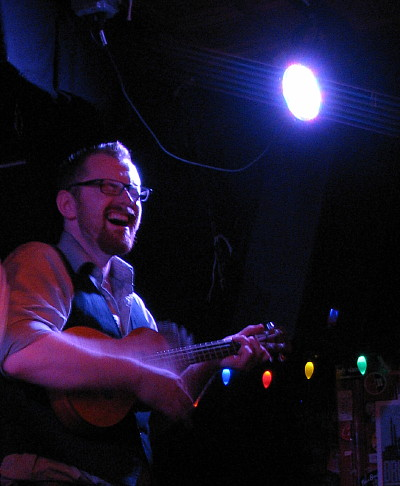 Guggenheim Grotto performing at The Saint in Asbury Park, NJ, USA, on July 6, 2012.